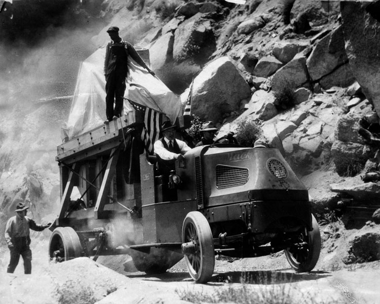 Mirror for observatory on Mt. Wilson The 100-inch telescope glass being hauled up the one-way dirt toll road from Altadena to Mt. Wilson by truck in 1917. It was boxed in and draped with an American flag.